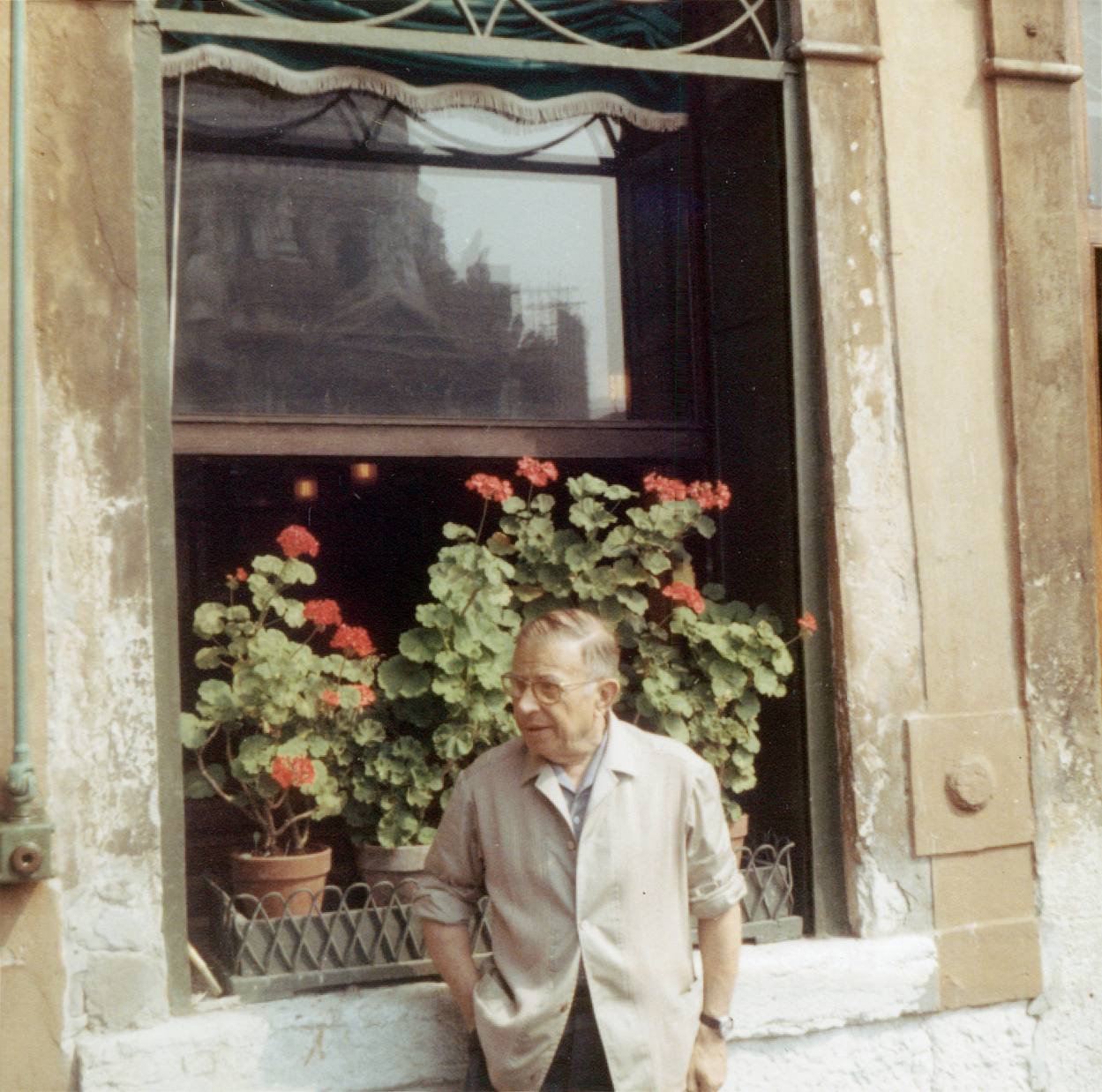 Jean-Paul Sartre in Venice; August of 1967.